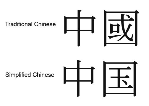 Traditional and Simplified characters for China